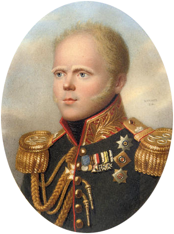 Grand Duke Constantin Pavlovich (1778-1831), in general's uniform, red-piped black coat, gold-embroidered red collar, gold aiguillette and epaulettes, wearing the breast-star of the Imperial Russian Order of St. Andrew, the jewel and breast-star of St. George (2nd class), the Order of St. Vladimir, the Austrian Order of Maria Theresa, the Prussian Iron Cross, the Württemberg Military Merit (Knight class), the Bavarian Military Order of Max-Joseph, and medals including the 1812 Campaign; sky background signed and dated 'Benner 1818' (mid-right) on card oval, 5¼ in. (33 mm.) high, rectangular gilt-metal mount within giltwood panel